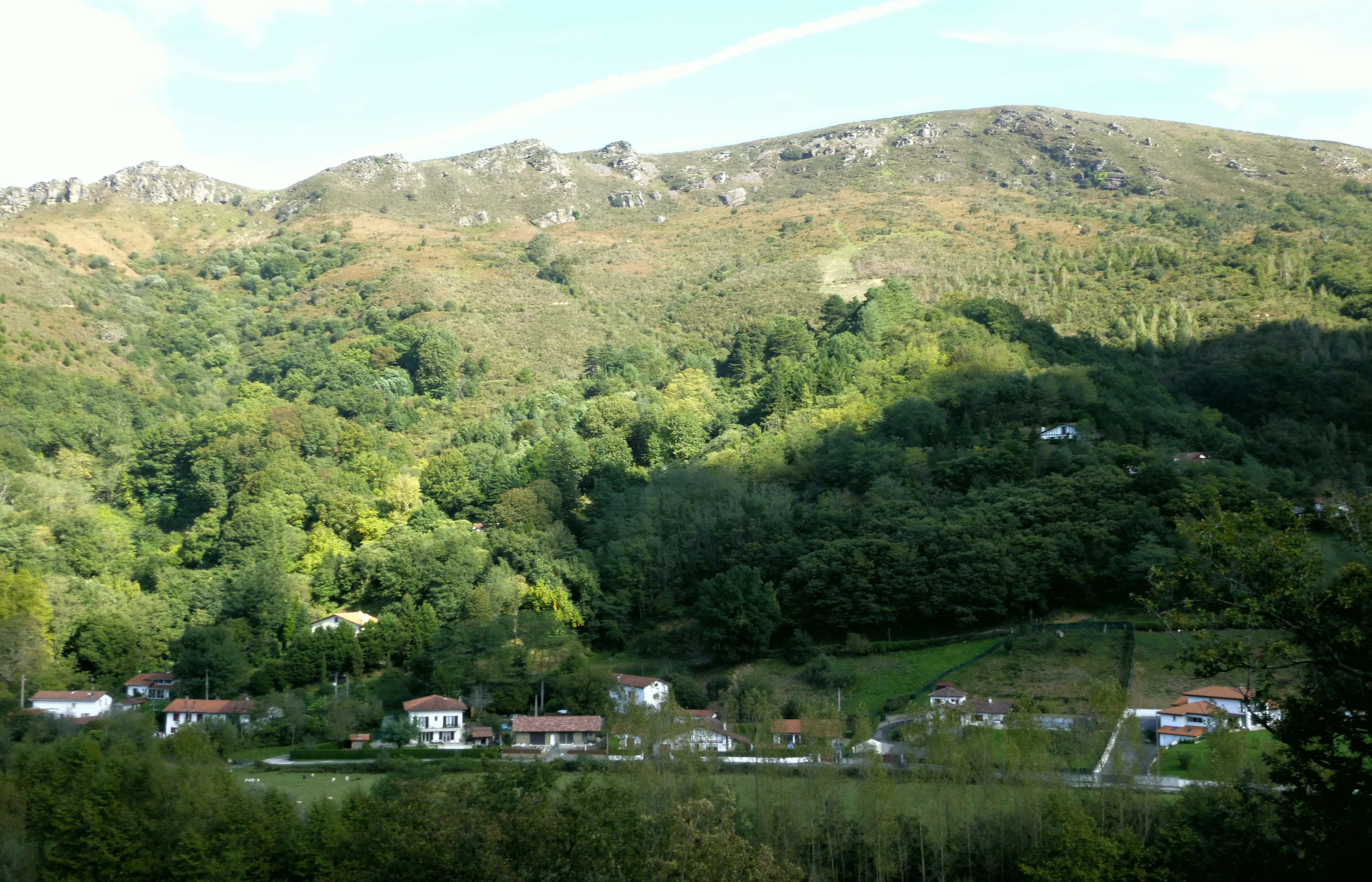 Xoldokogaina